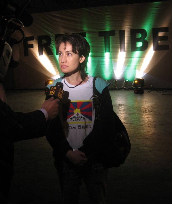 Hsiao Bi-khim (Hsiao Mei-chin), a Taiwanese DPP politician